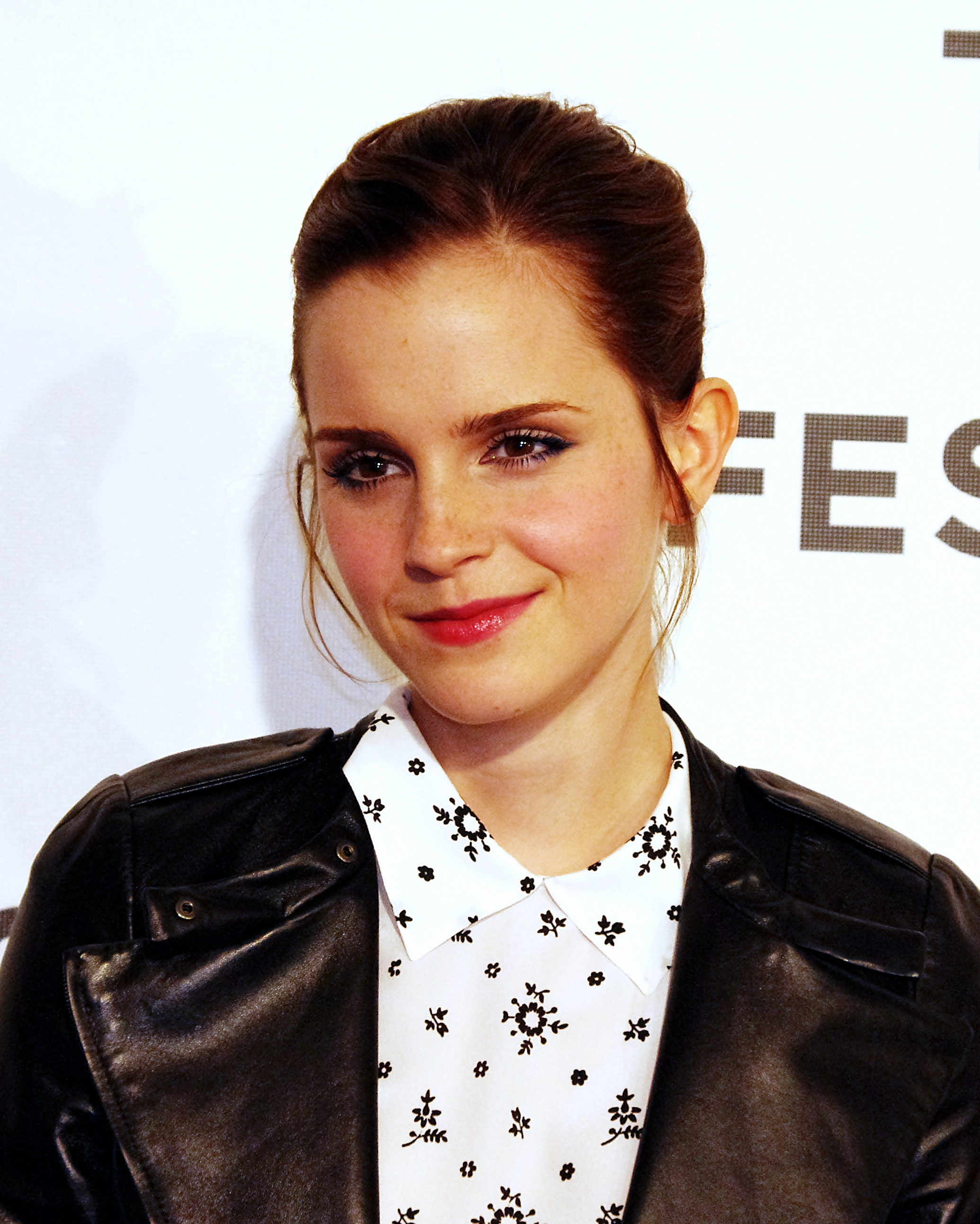 Emma Watson at the 2012 Tribeca Film Festival premiere of Struck by Lightning.